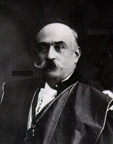 Photograph of Italian physicist Augusto Righi from Bologna Physics Museum website.